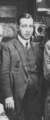 Luis Ángel Scaglione- productor y empresario argentino